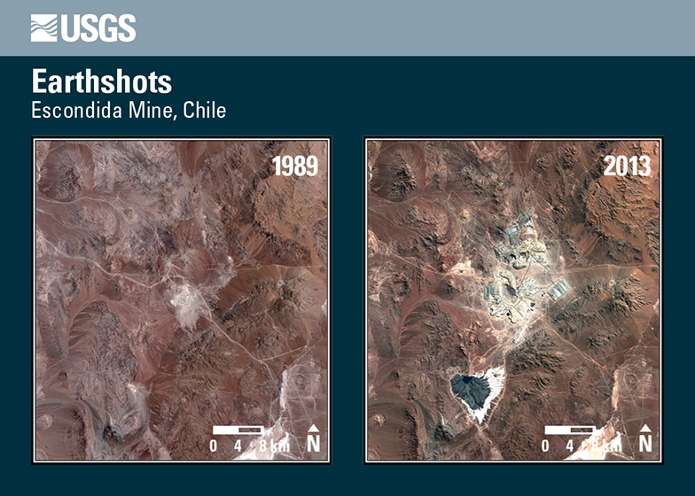 Escondida Mine, Chile, world’s largest source of copper. Credit: U.S. Geological Survey Department of the Interior/USGS Landsat